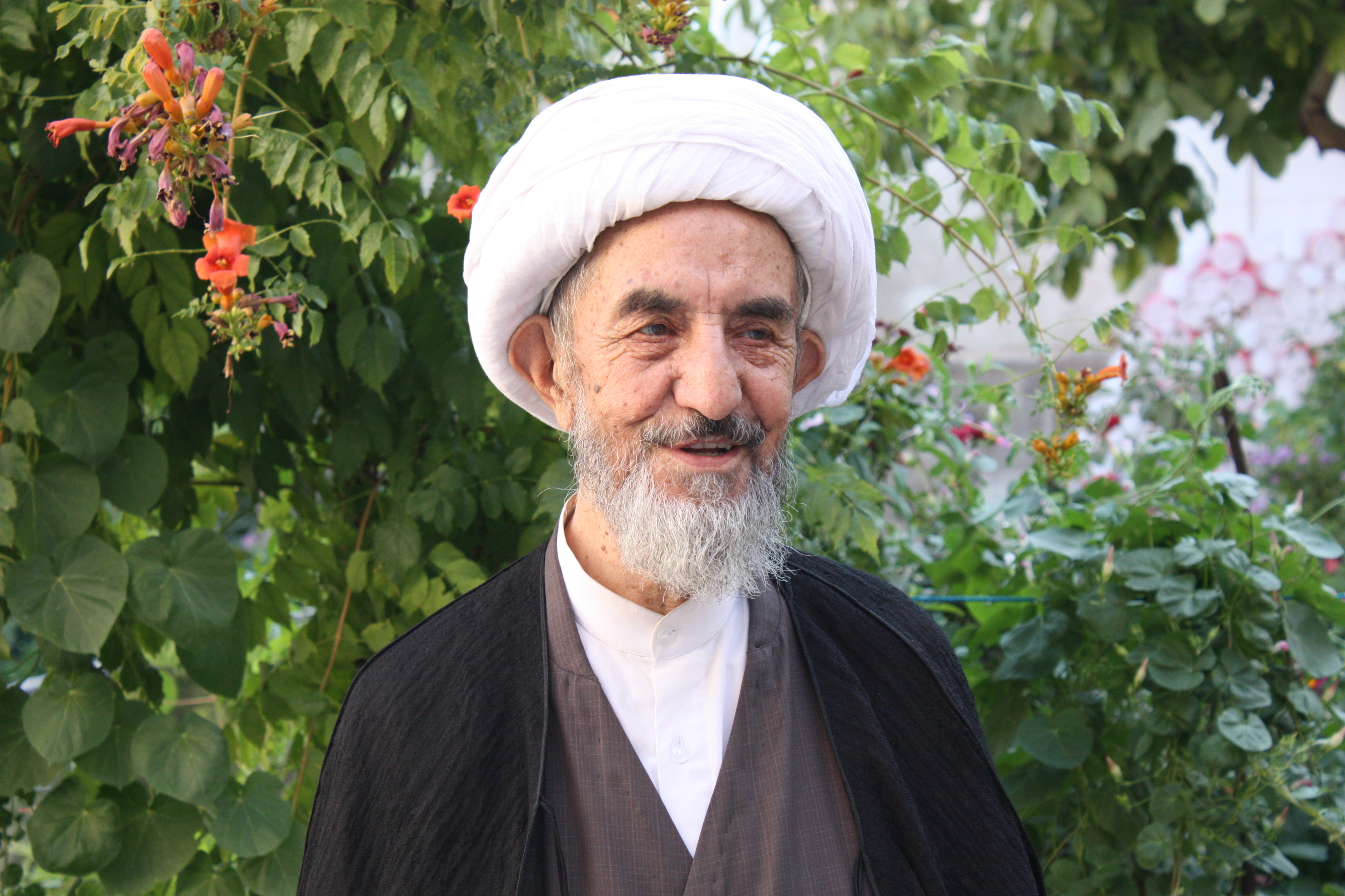 Ayatollah Mohsen Koochebaghi Tabrizi in his home's yard, 2010.